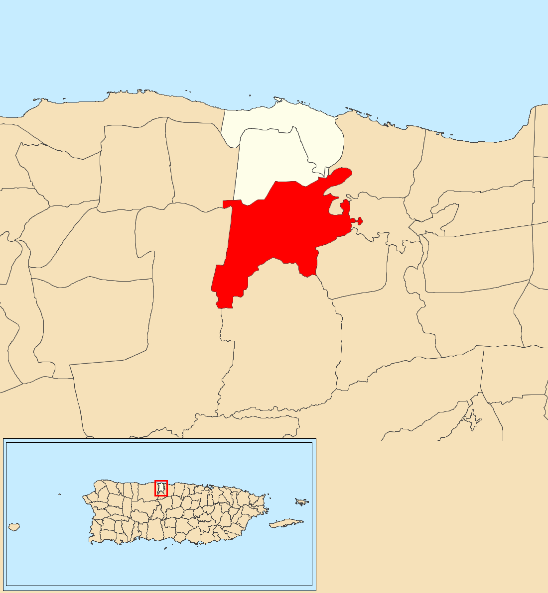 Florida Afuera, Barceloneta, Puerto Rico locator map